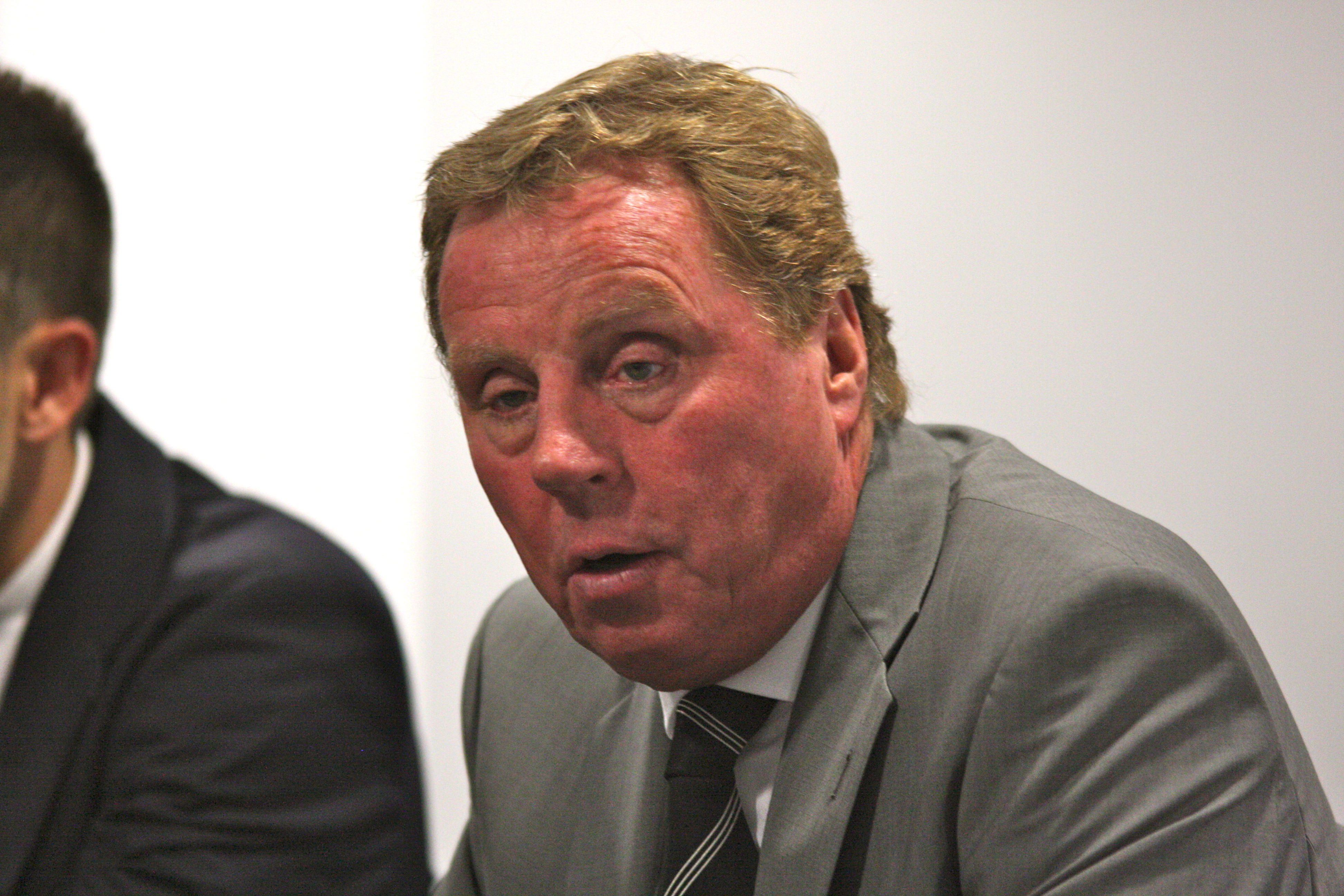 Harry Redknapp, manager of Tottenham Hotspur, before a preseason match against Brighton Hove & Albion in July 2011.